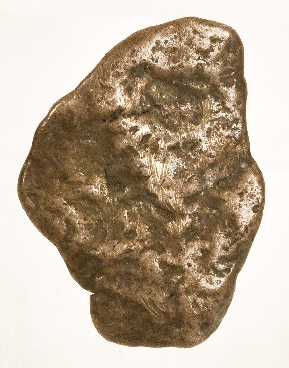 Amalgam (Var.: Arquerite) Locality: Omenica Mining Division, British Columbia, Canada (Locality at ) Size: 1.1 x 0.8 x 0.2 cm. Arquerite is a very rare variety of mercurian silver amalgam containing 13% of mercury. This rarity is found in only 4 localities worldwide, 2 in Chile (Type Locality) and 2 in British Columbia, Canada. This flattened, rounded thumbnail is river-worn, since arquerite is composed of two soft native elements, silver and mercury. The placer deposits here were mined intermittently between 1940 and 1963. Ex. John Saul Collection, a native elements specialist, who obtained this in a trade with Curator Pierre Bariand of the Sorbonne in Paris.